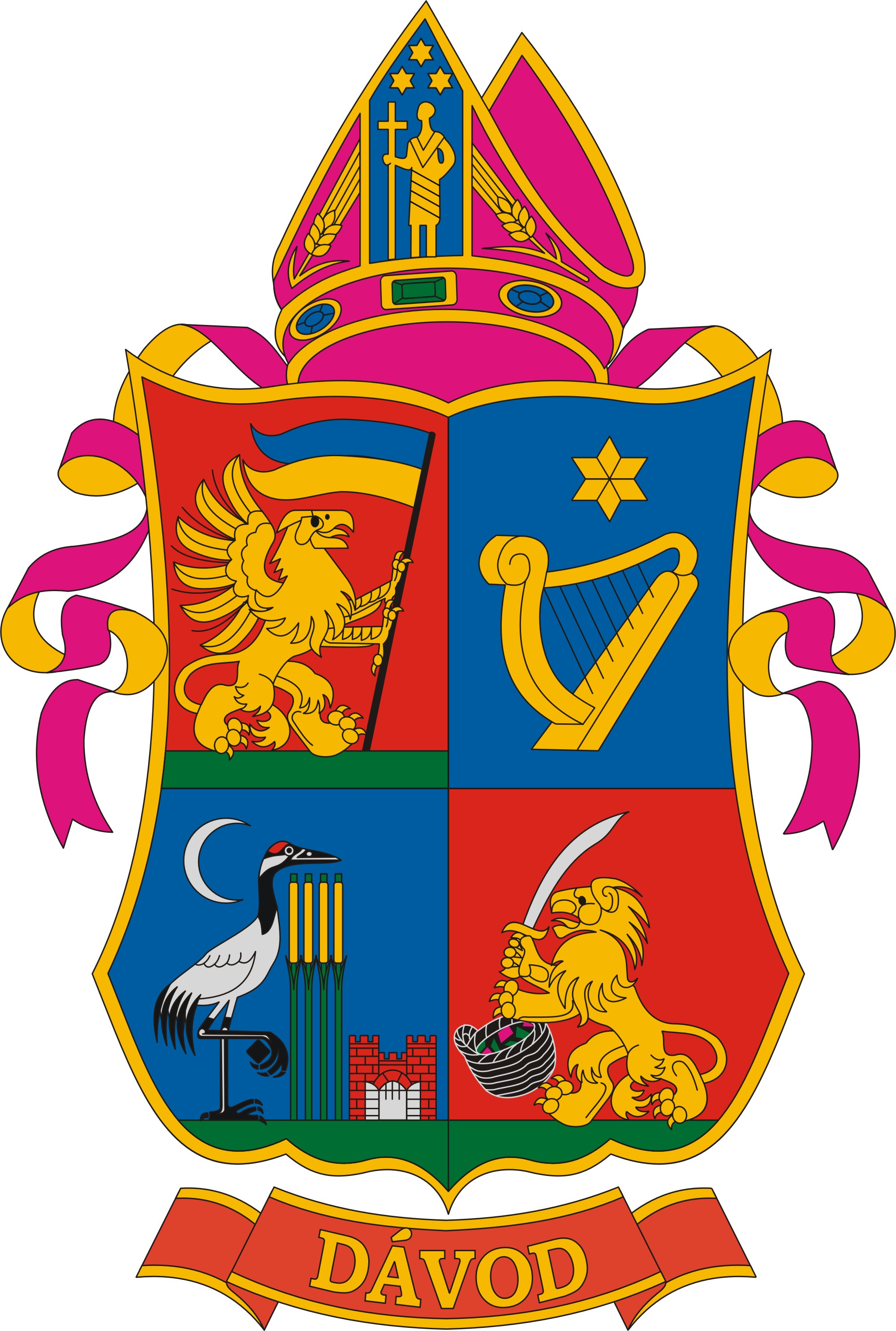 Coat of arms of Dávod, Hungary